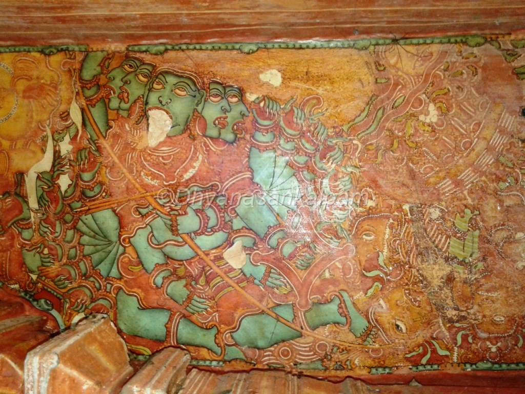 തൊടീക്കളം ചിത്രങ്ങൾ-രാവണൻ